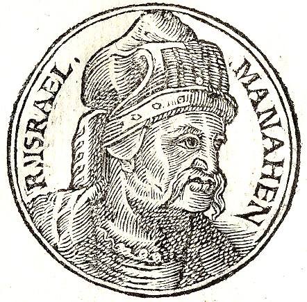 Menahem was a king of the northern Israelite Kingdom of Israel. He was the son of Gadi, and the founder of the dynasty known as the House of Gadi or House of Menahem.